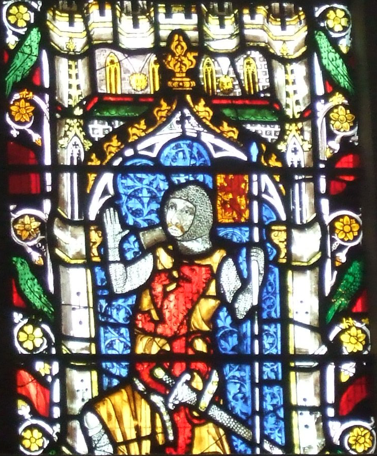 photograph of 14th century stained glass window, possibly portraying John Cherleton (1268 to 1353) in St Mary's Church, Shrewsbury, England.